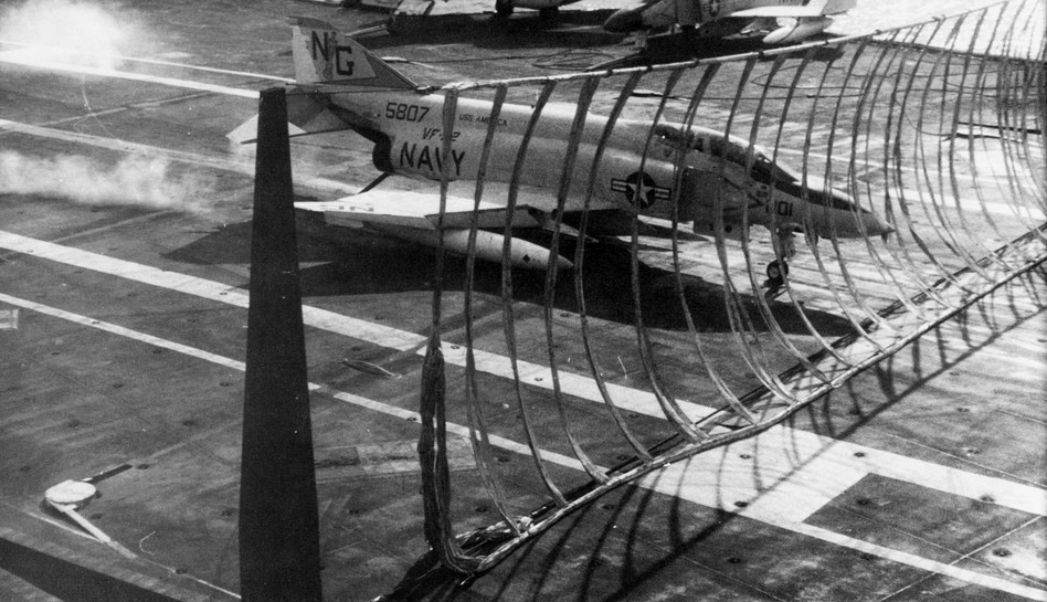 A U.S. Navy McDonnell F-4J-35-MC Phantom II (BuNo 155807) from Fighter Squadron VF-92 Silver Kings about to hit the crash barrier aboard the aircraft carrier USS America (CVA-66). VF-92 was assigned to Carrier Air Wing 9 (CVW-9) aboard aboard the Americafor a deployment to Vietnam from 10 April to 21 December 1970. Note that the arresting wires have been removed.